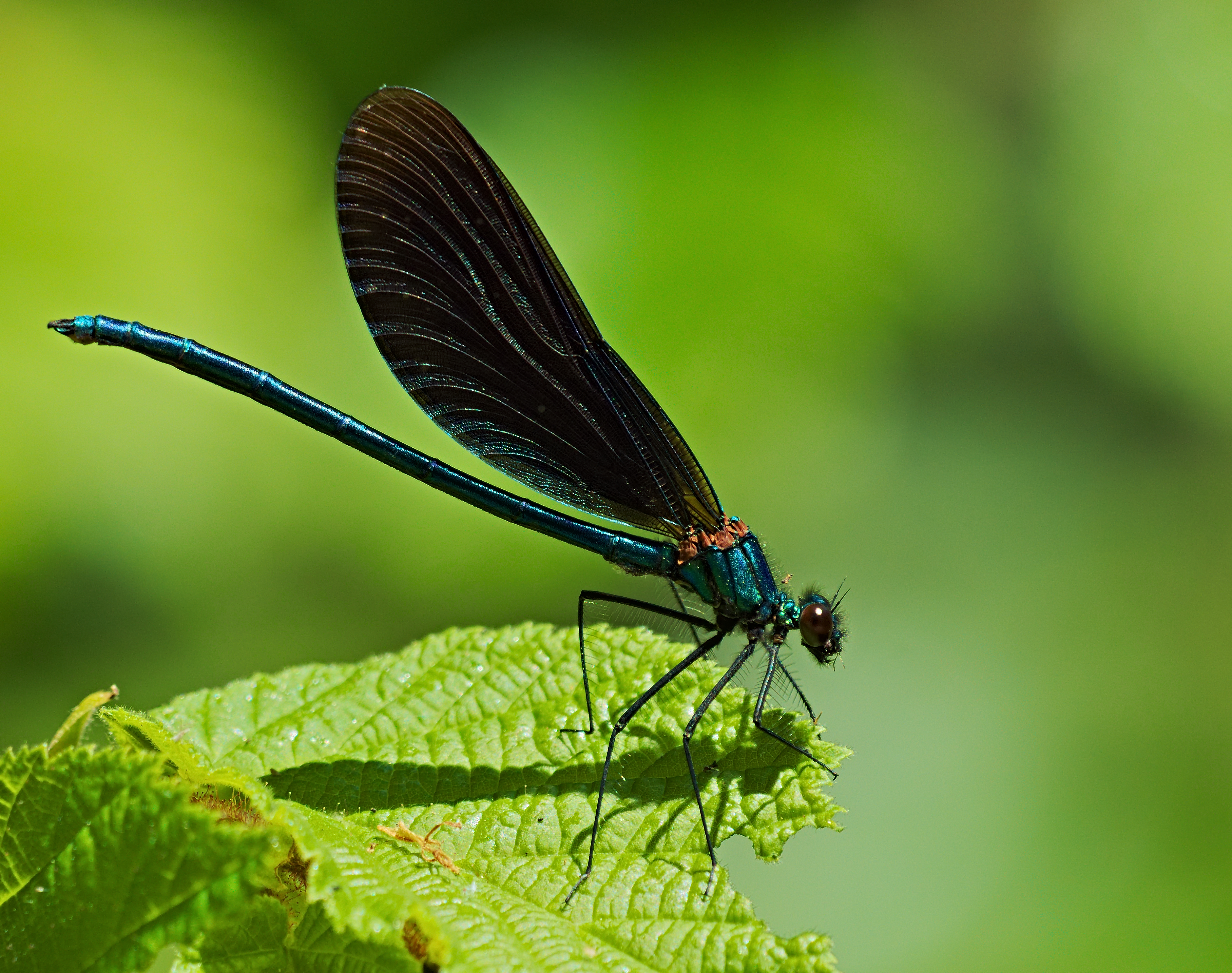 Beautiful demoiselle - Calopteryx virgo, male. Taken in Kirn-Sulzbach, Rhineland-Palatinate, Germany.